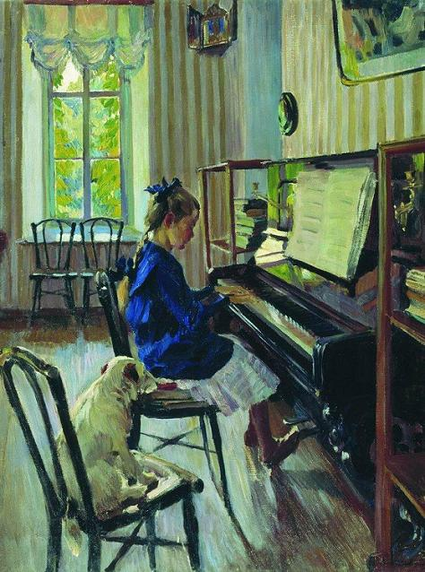 Igraet / (She) plays